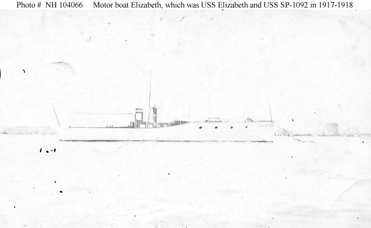 An overexposed phtorograph of the private motorboat Elizabeth prior to her United States Navy service as the patrol vessel .